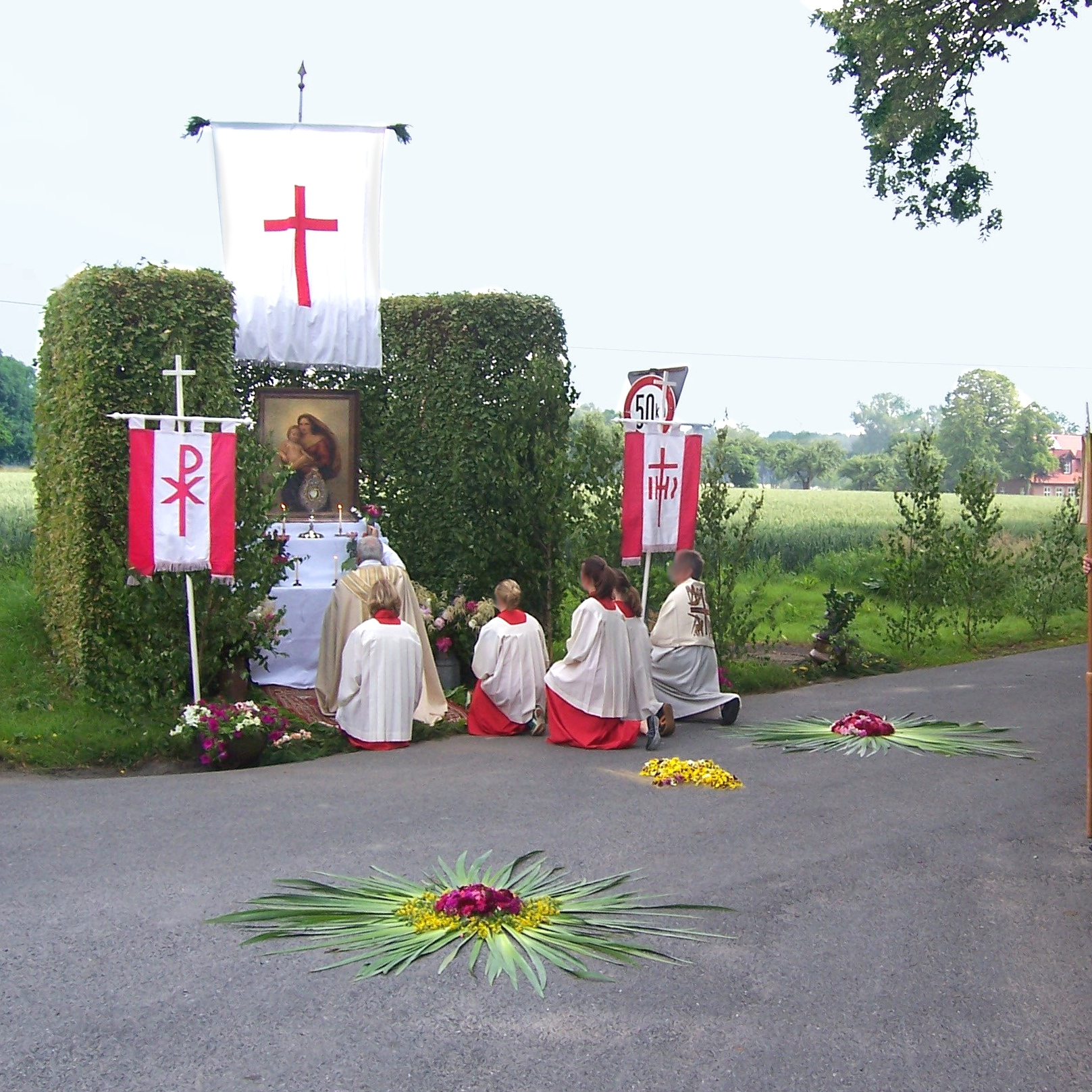 Corpus Christi Procession in a Münsterland village, Westfalia, NRW, Germany. One of four outside benedictions of the blessed sacrament is given here. The decoration is made of birches and flags and the stars on the street are made of iris leaves Near the altar are peony and goat's beard put in milk churns, a "phenomenon" or "tradition" which bases on the fact, that people in rural areas usually had not many and not huge vases in former times.